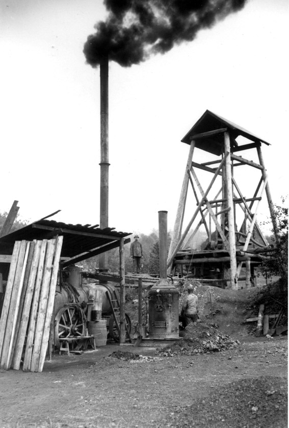 mine Eduard & Amalia